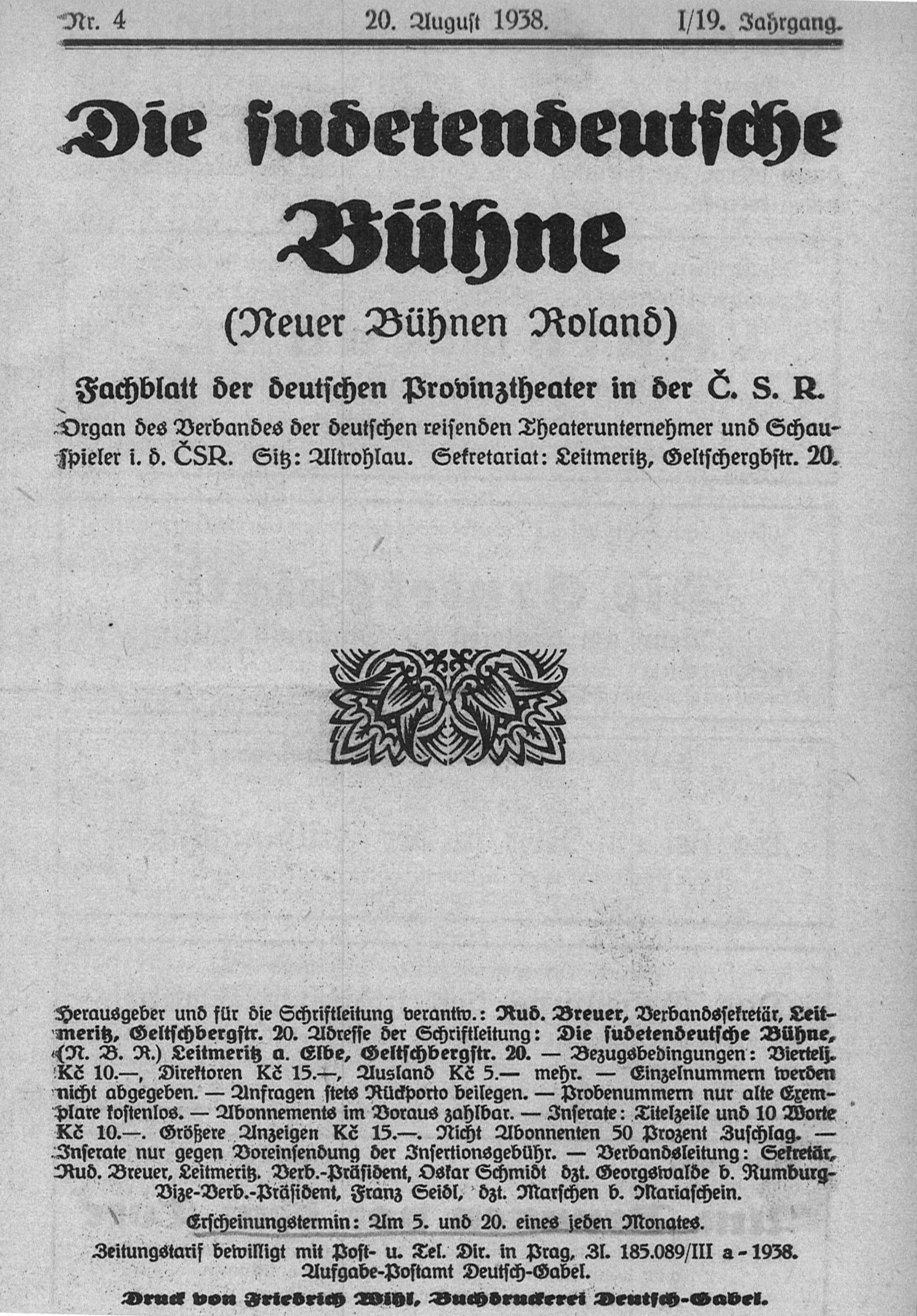 Cover of magazine Die sudetendeutsche Bühne (č.4/1938).